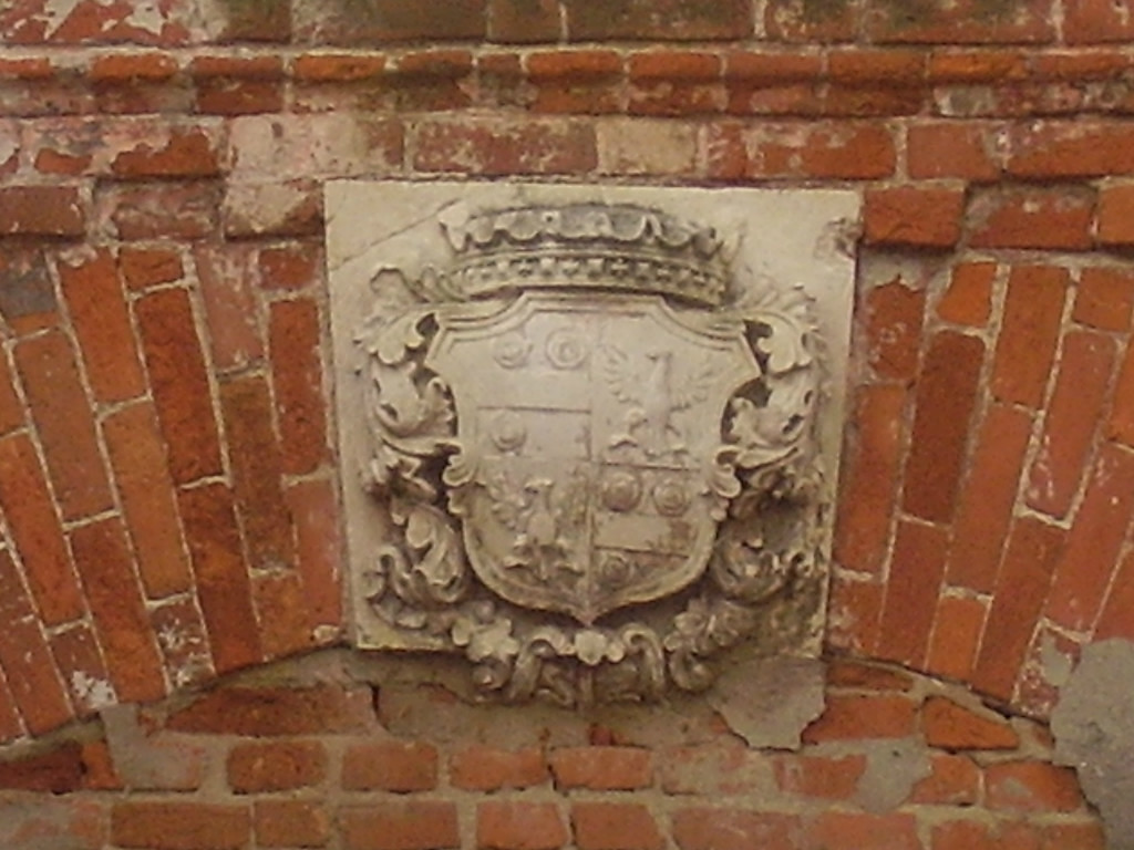 Coat of Arms of barons Bode Family installed at the entrance gate to the estate from the village